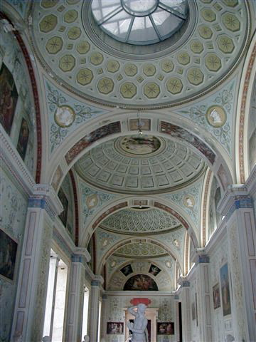 Inside of the Hermitage (or Winter Palace).